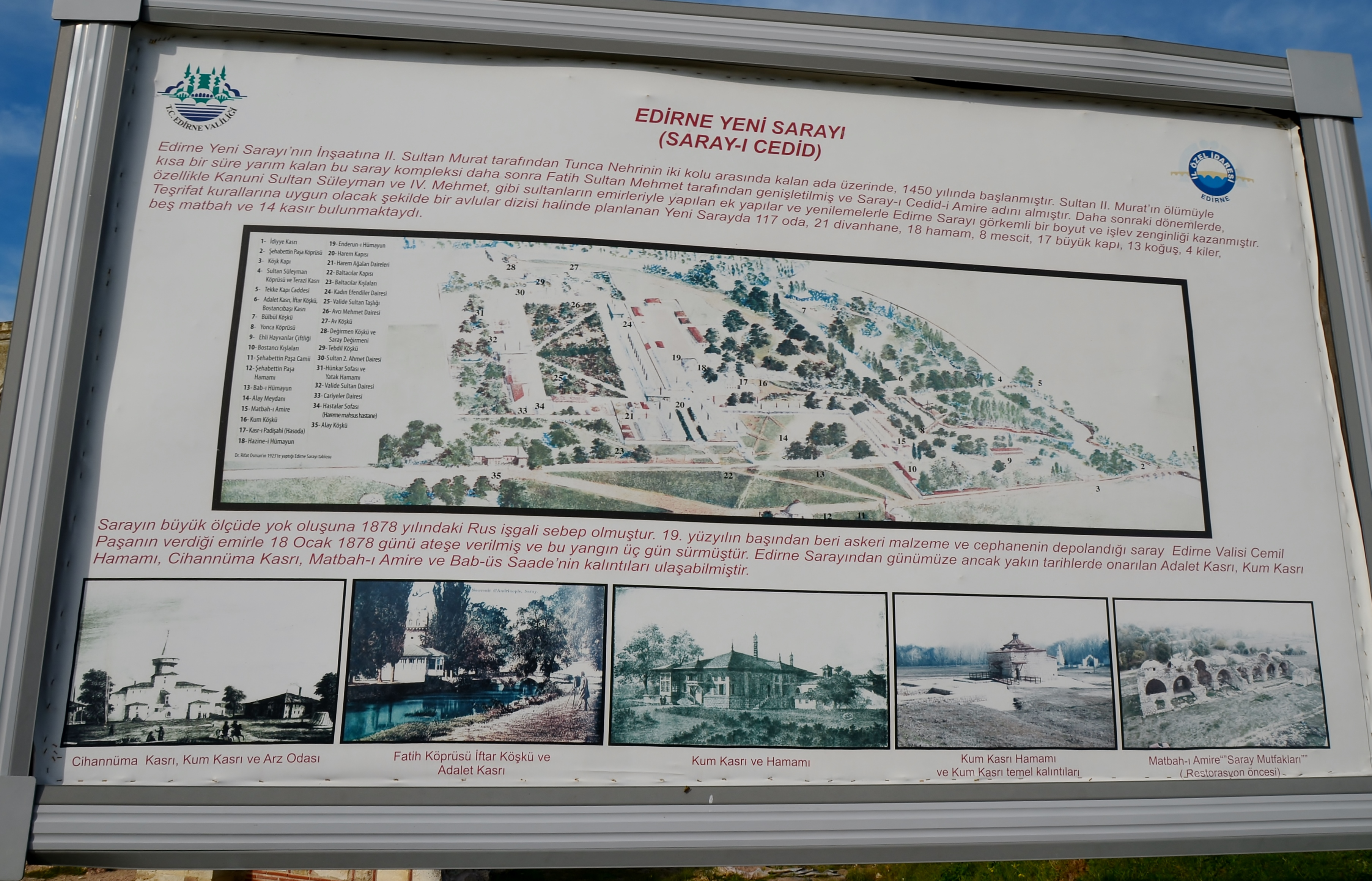 Layout of Edirne Palace, Turkey